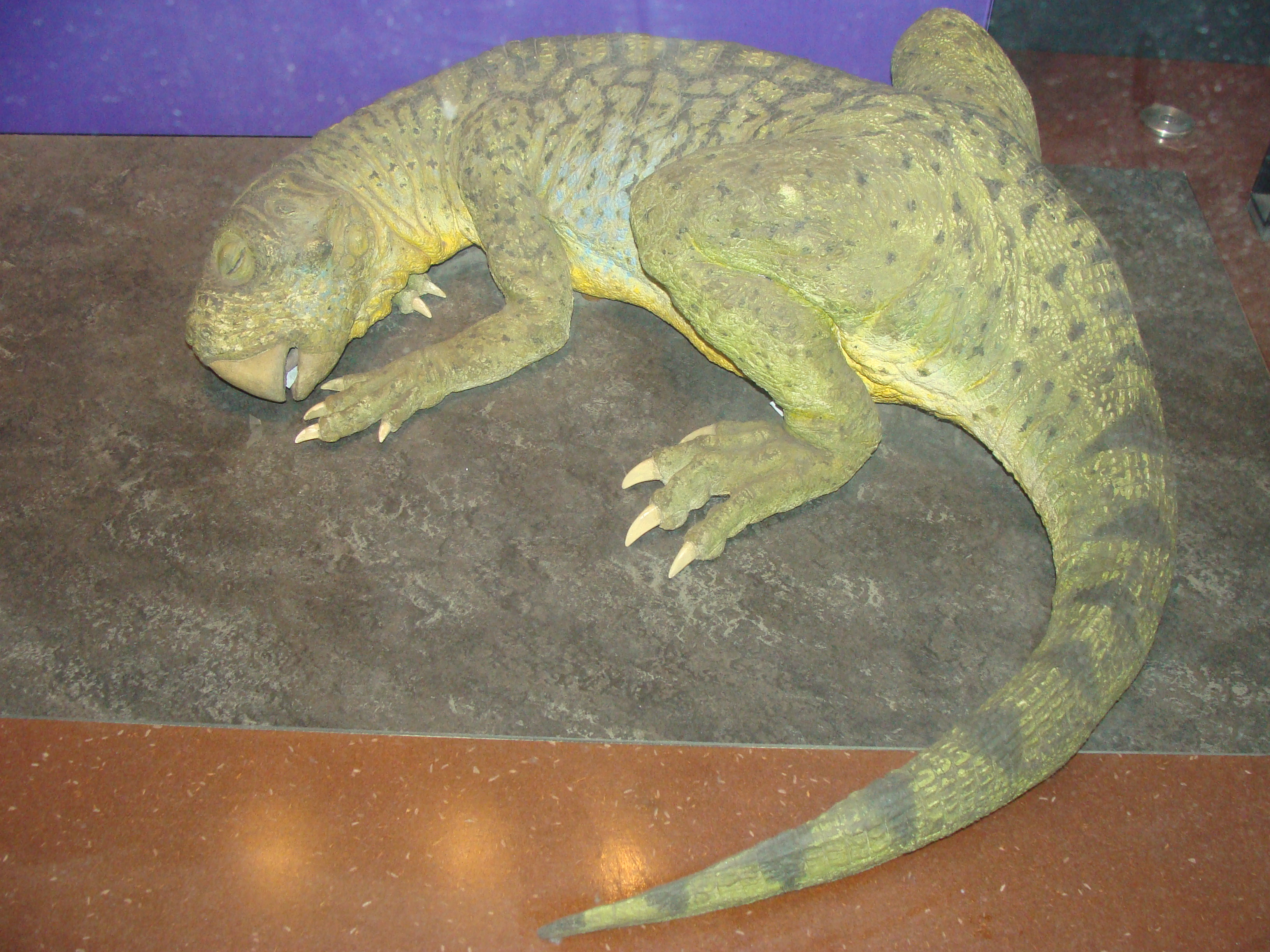 Psittacosaurus Model in the Natural History Museum of London